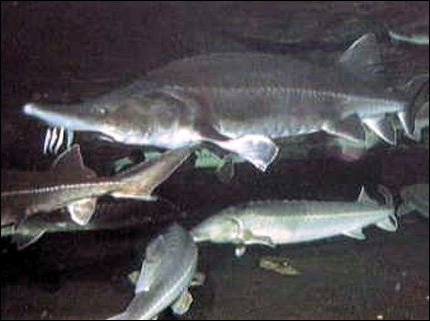 Kaluga Sturgeon at Vladivostok Oceanarium